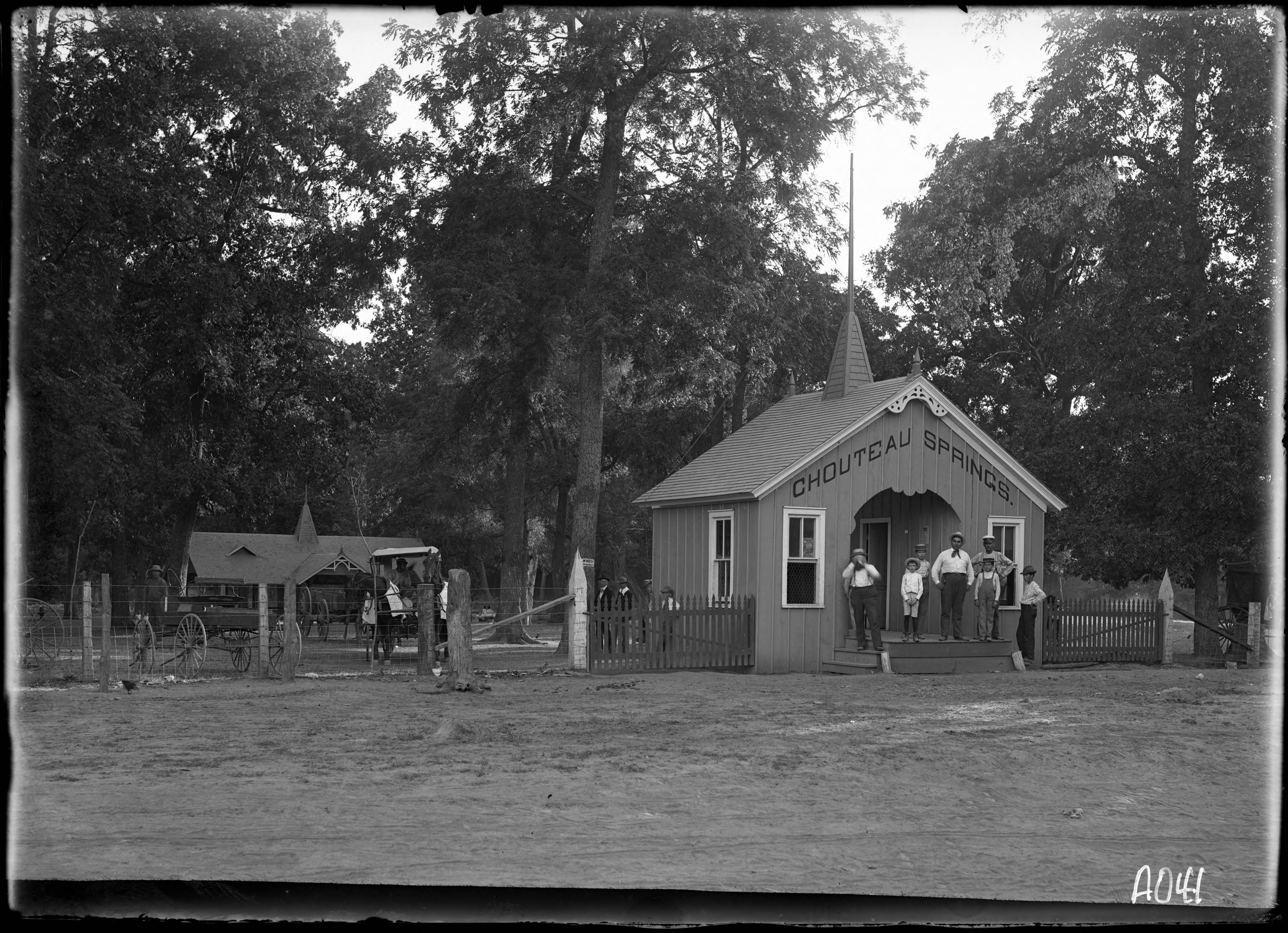 Chouteau Springs Resort Pavilion ca 1900 photo taken by Maximilian Schmidt, Cooper County, Missouri.